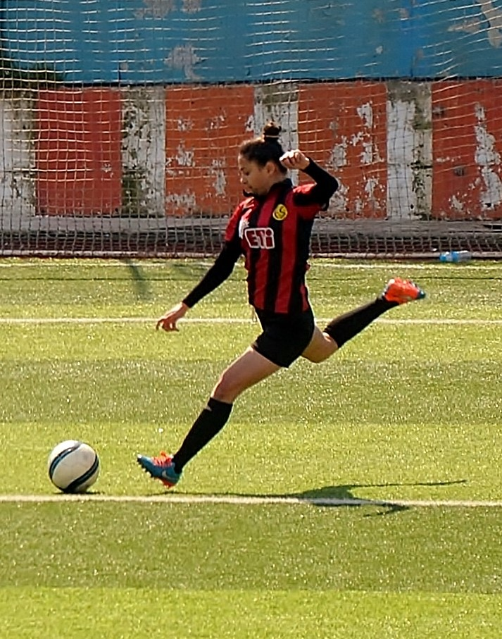 Büşra Taşkın playing for Eskişehirspor in the 2014-15 season